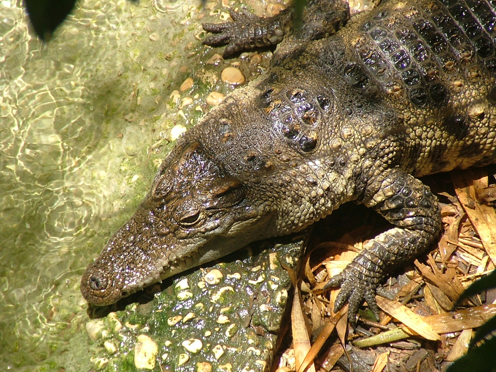 A Siamese Crocodile (Crocodylus siamensis) at the Jerusalem Biblical Zoo.